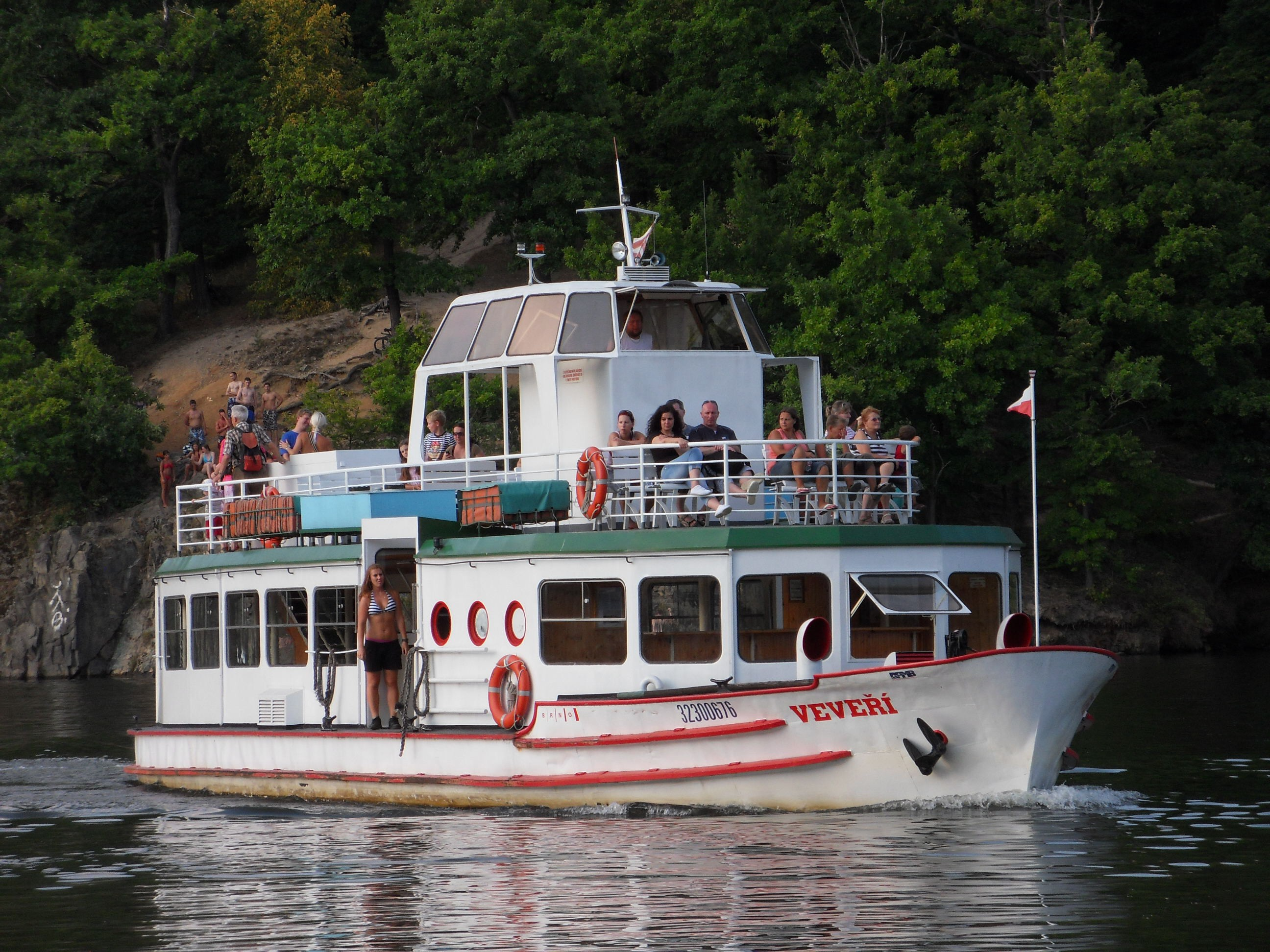 Veveří ship at Brno Reservoir, Brno, Czech Republic